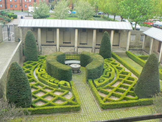 St Nicholas Gardens The name of this cloistered garden behind Provand's Lordship, comes from a possible link with the Chapel and Hospital of St Nicholas. The gardens were officially opened in 1995 by HRH The Princess Royal.